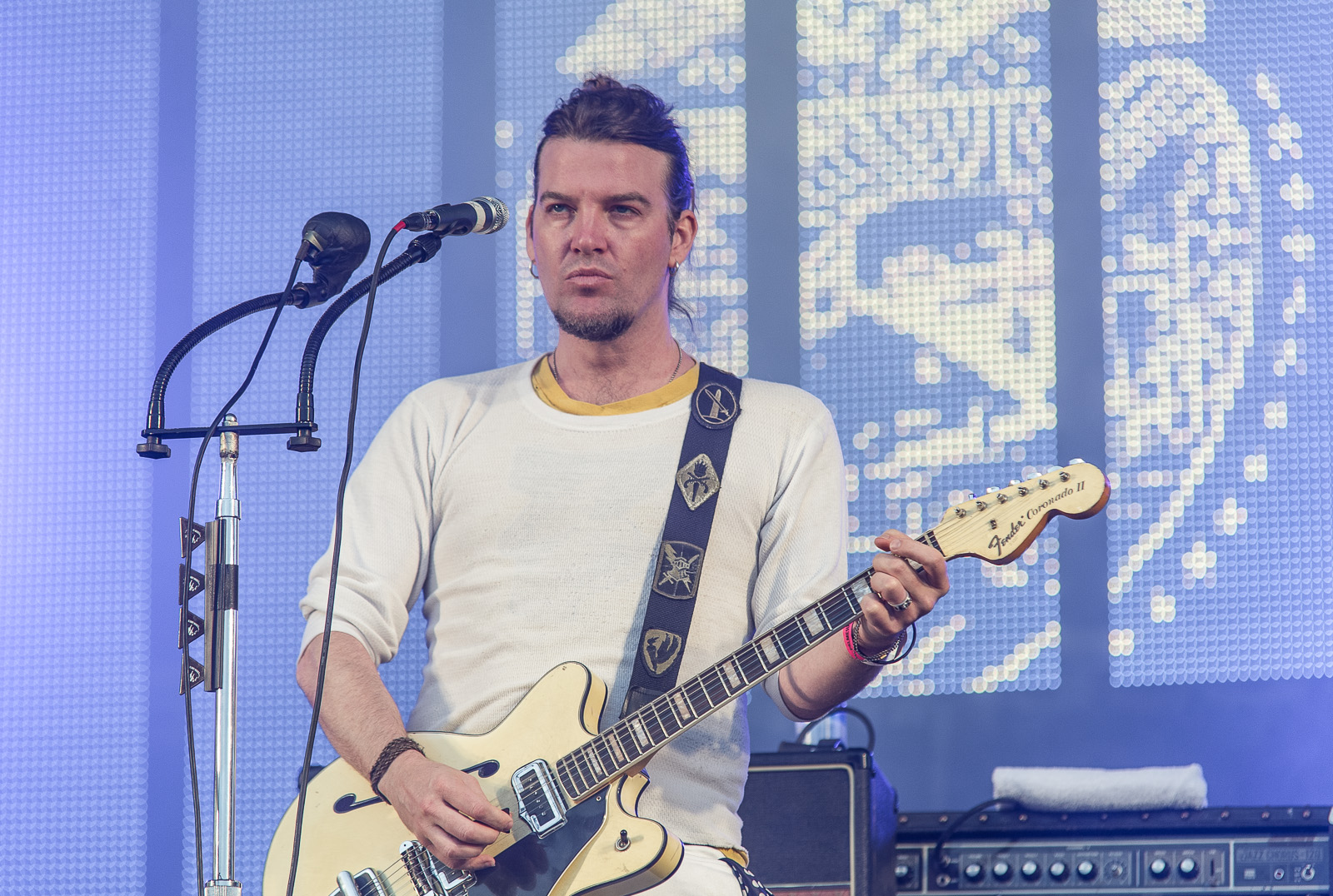 The Dandy Warhols performing at Palmesus 2011, Kristiansand, Norway.